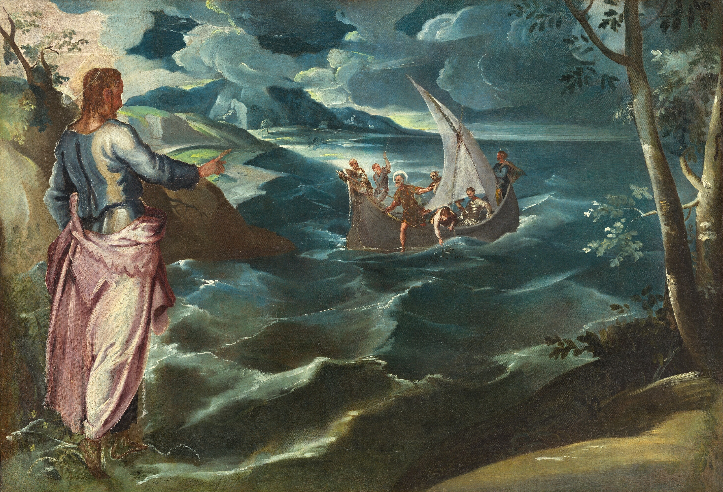 scene from John's Gospel